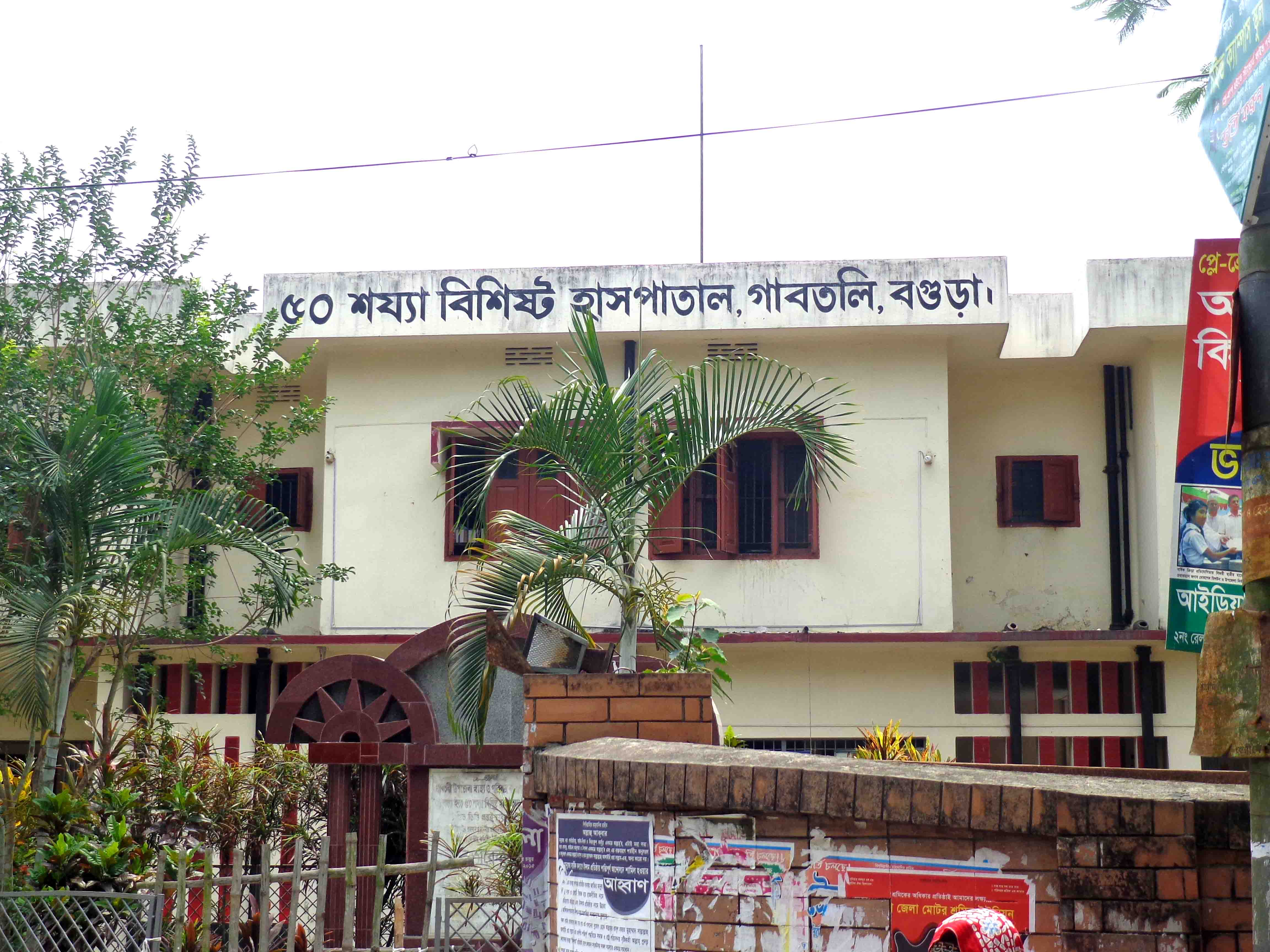 গাবতলী উপজেলার হাসপাতাল